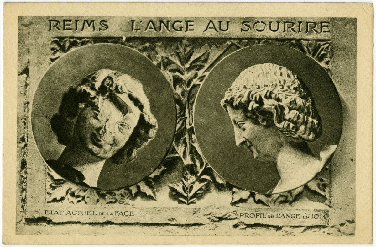 Accession Number: 1969:0314:0003 Maker: Anthony Thouret (French) Title: Reims L'Ange au Sourire Date: ca. 1918 Medium: photomechanical reproduction Dimensions: Image: 8.2 x 12.8 cm Overall: 9.1 x 13.9 cm George Eastman House Collection General – information about the George Eastman House Photography Collection is available at For information on obtaining reproductions go to